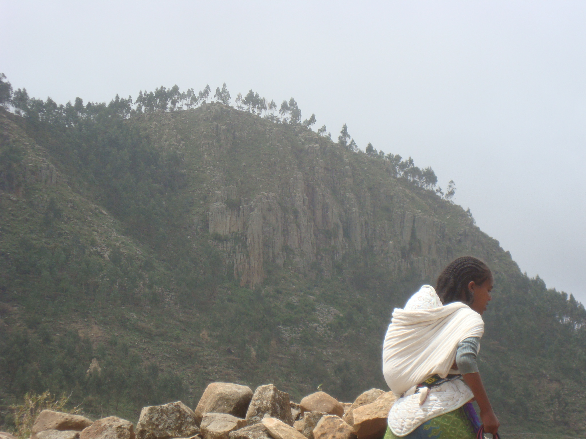 Phonolite plug at Addi Amyuq, Dogua Tembien, Ethiopia